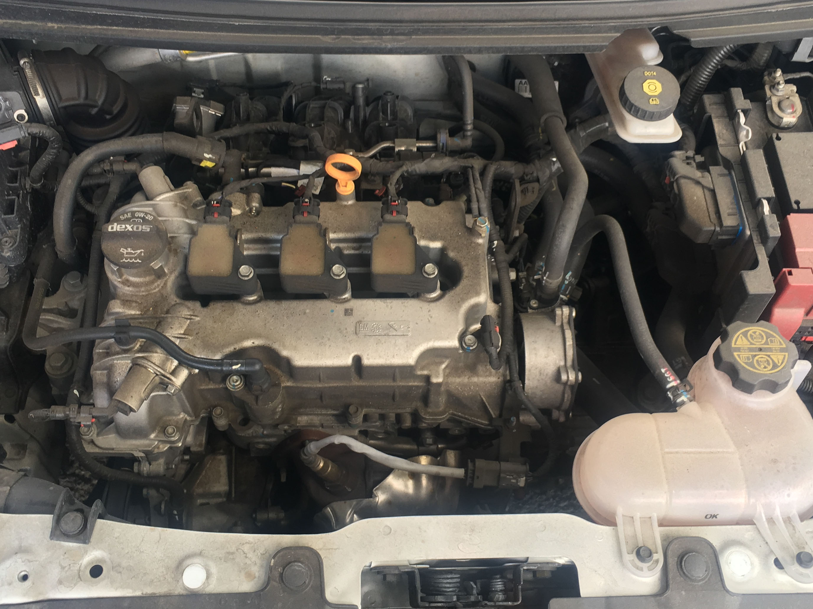 Engine bay with 1.0 litre three-cyclinder engine